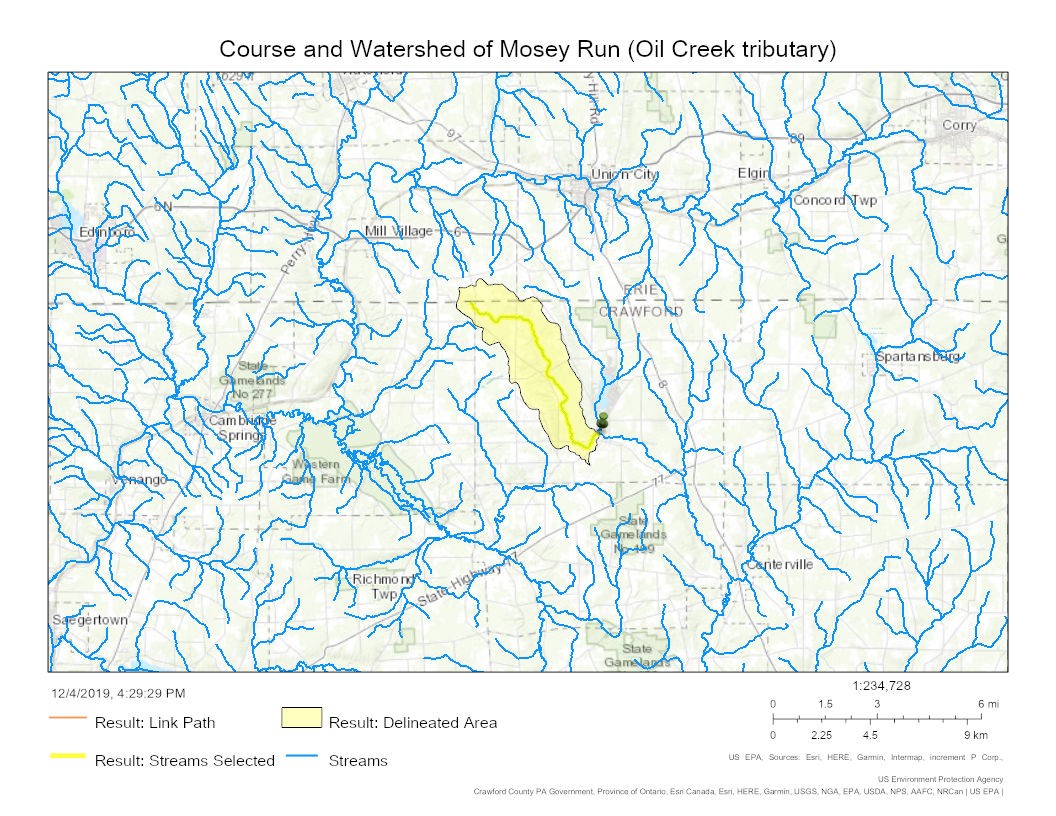 Map of the course and watershed of Mosey Run (Oil Creek tributary) in Crawford and Erie Counties, Pennsylvania